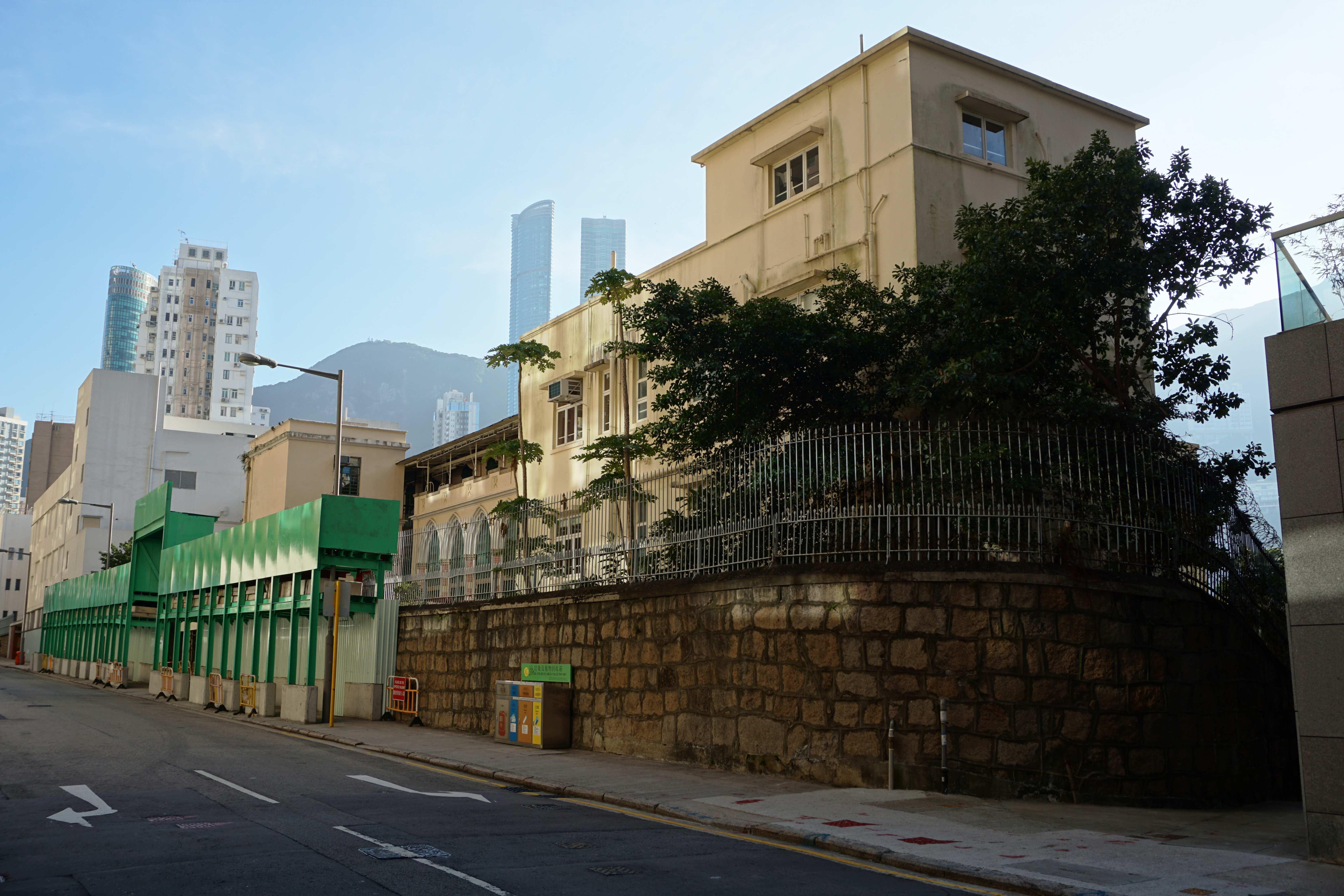 St. Paul's Primary Catholic School in Happy Valley, Hong Kong.